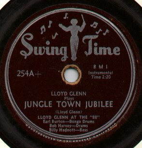 Swing Time Records 78 Record label